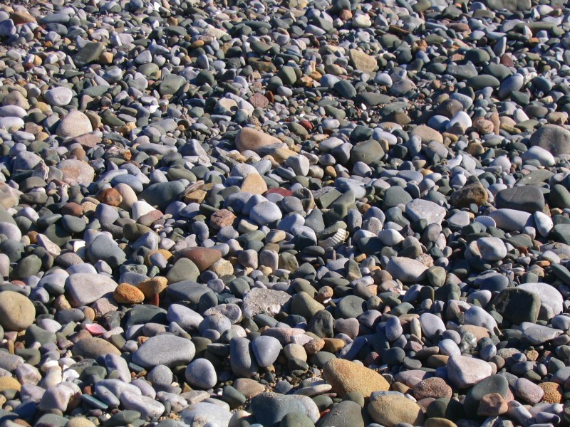 Taken by Lupin in Morecambe, 11/Apr/2004.